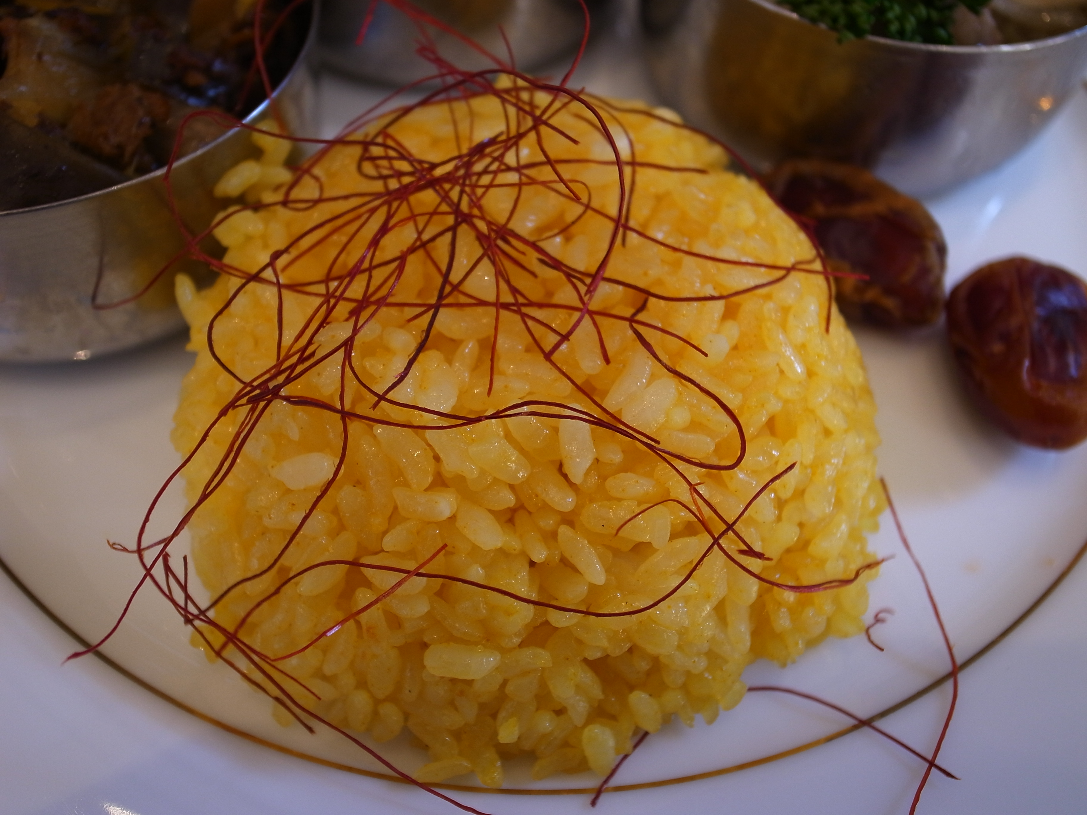 At the restaurant of National Museum of Ethnology, Osaka, Japan.